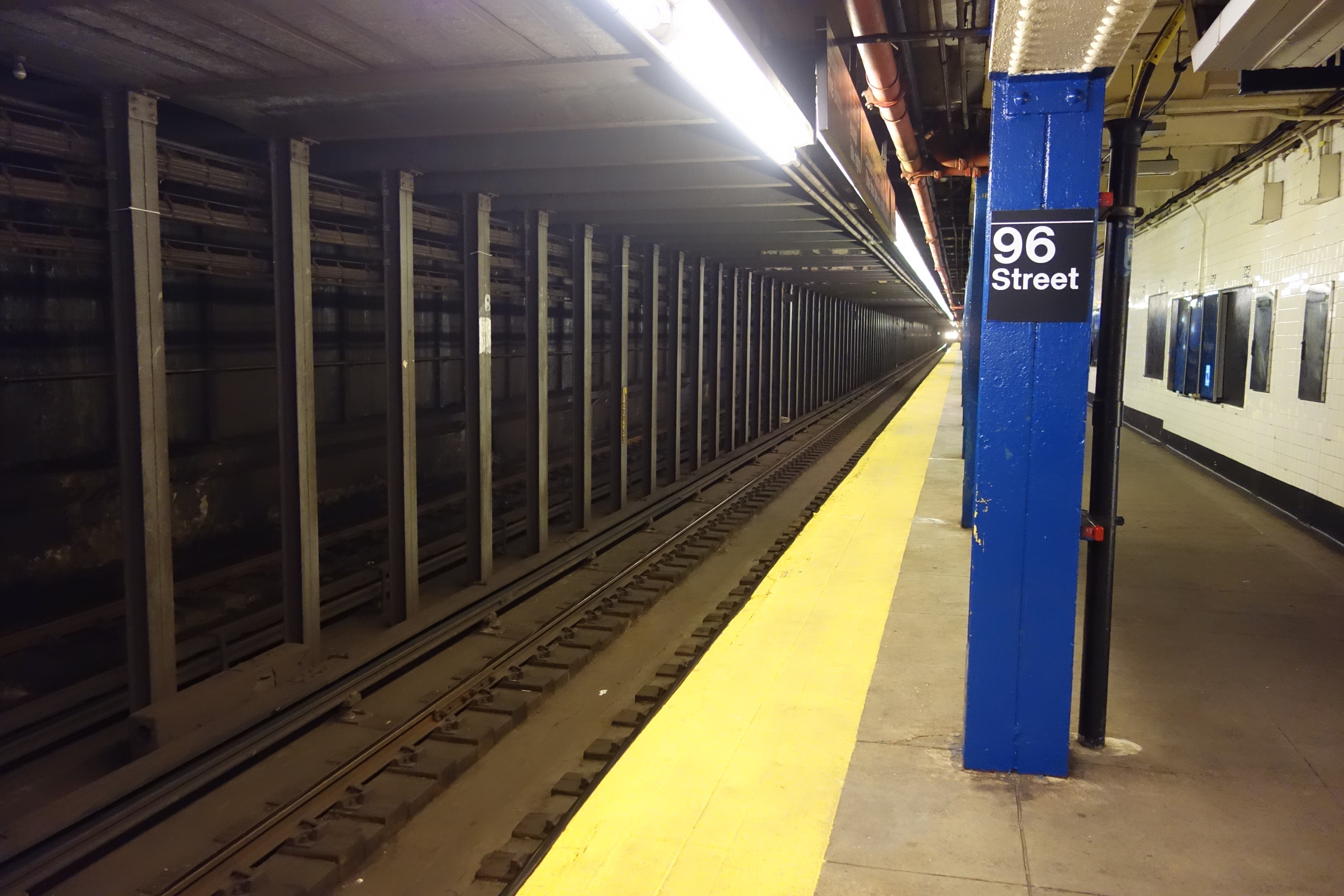 Looking south down the Uptown local track from the north end of the Uptown platform on the upper level of the 96th Street IND 8th Avenue station, under Central Park West and West 97th Street in the Upper West Side, Manhattan. A B train is approaching.